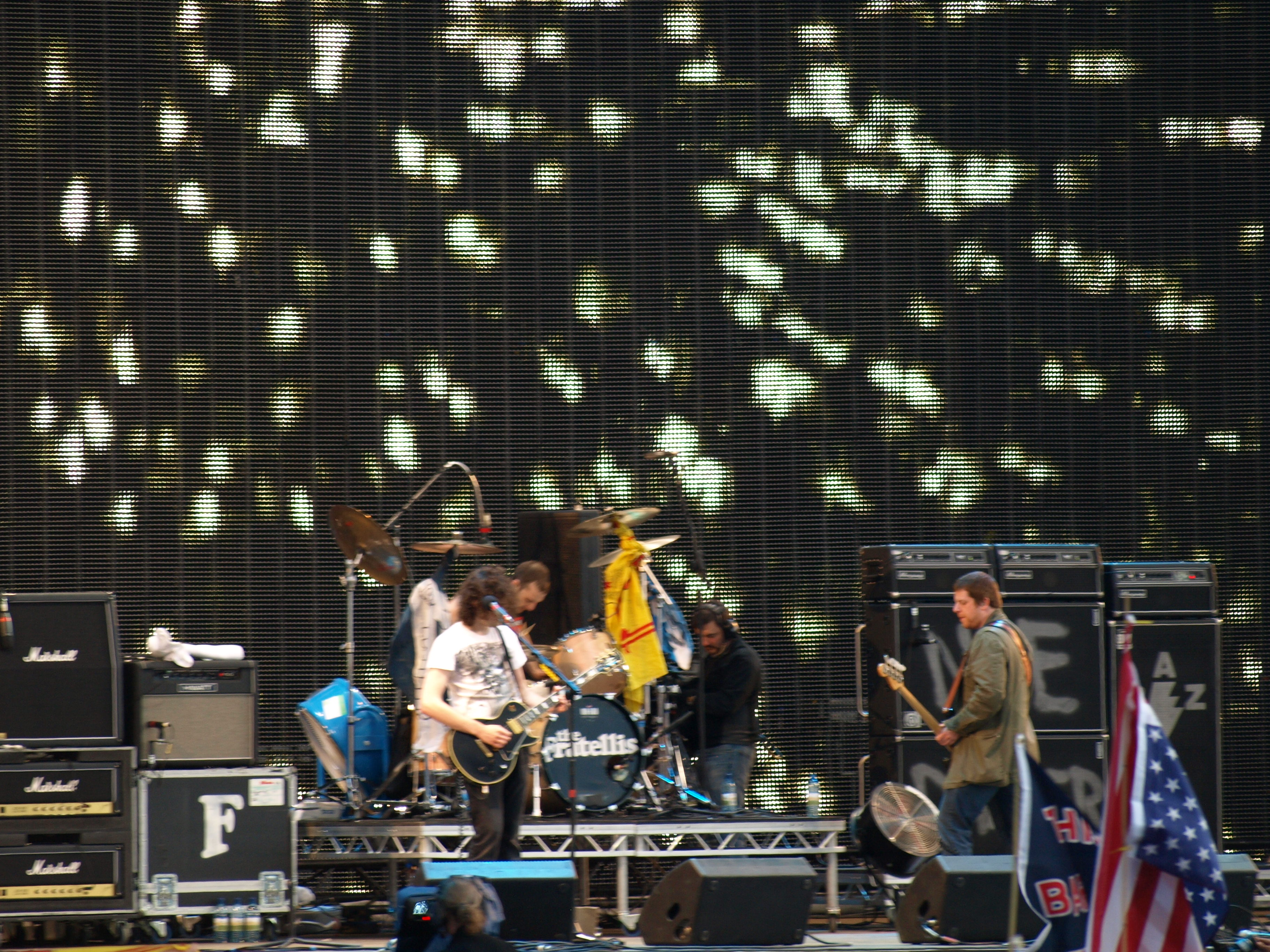 Frattelies on stage in July 2008.